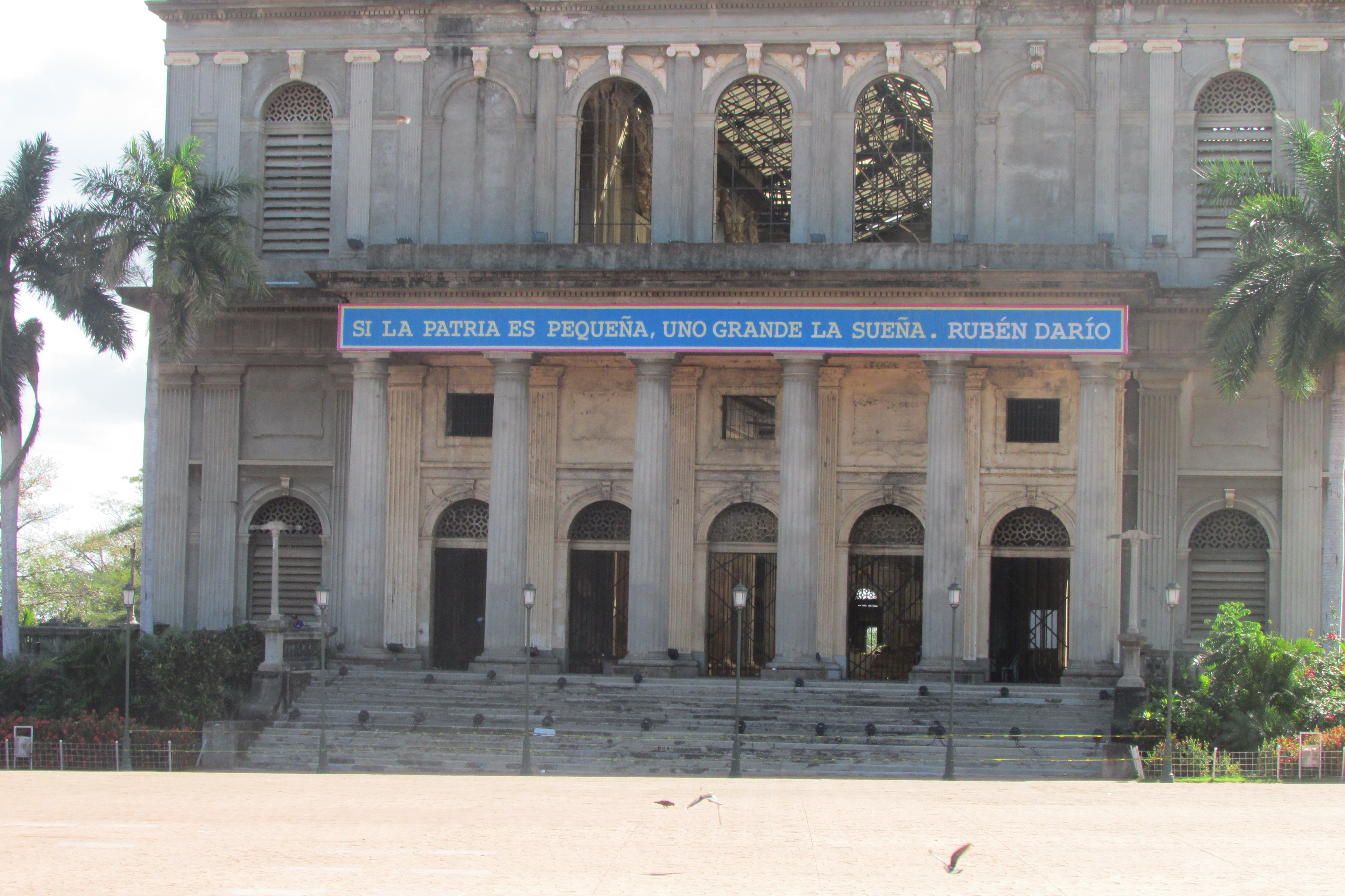 Old Cathedral of Managua with quote of Rubén Darío